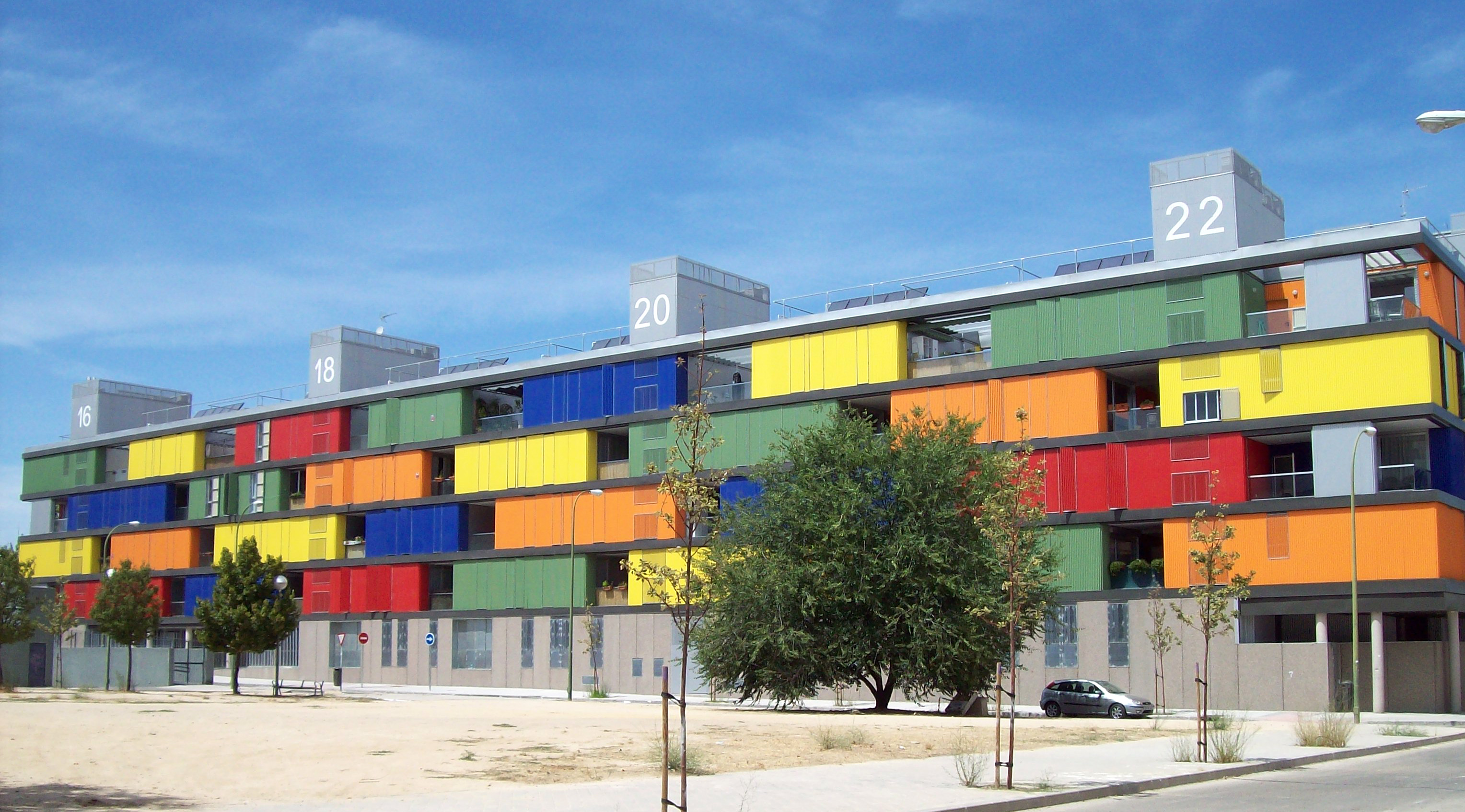 South-east façade of Carabanchel 17 building in Madrid (Spain).